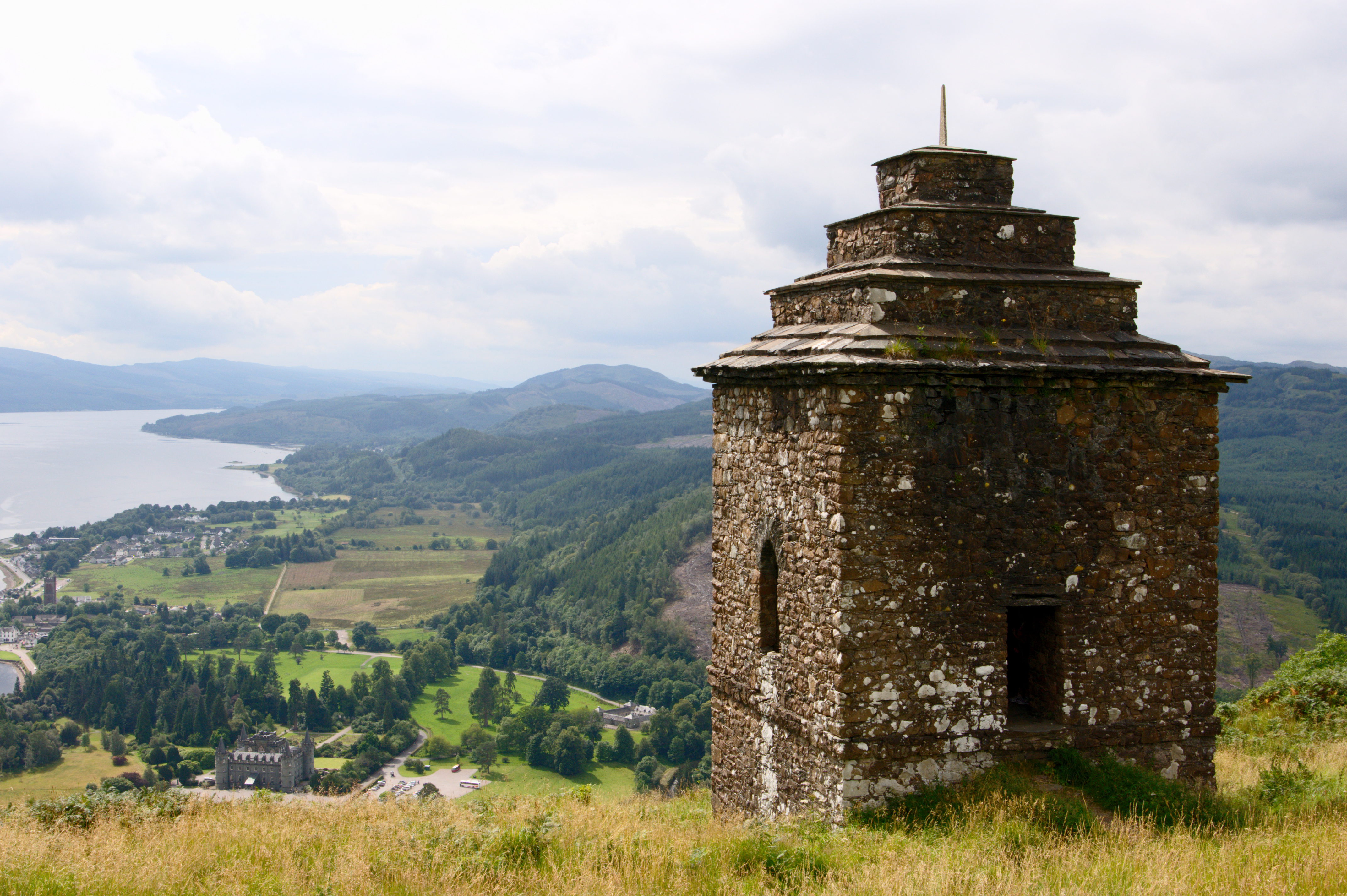 Watch tower on Dun na Cuiache, above Inveraray